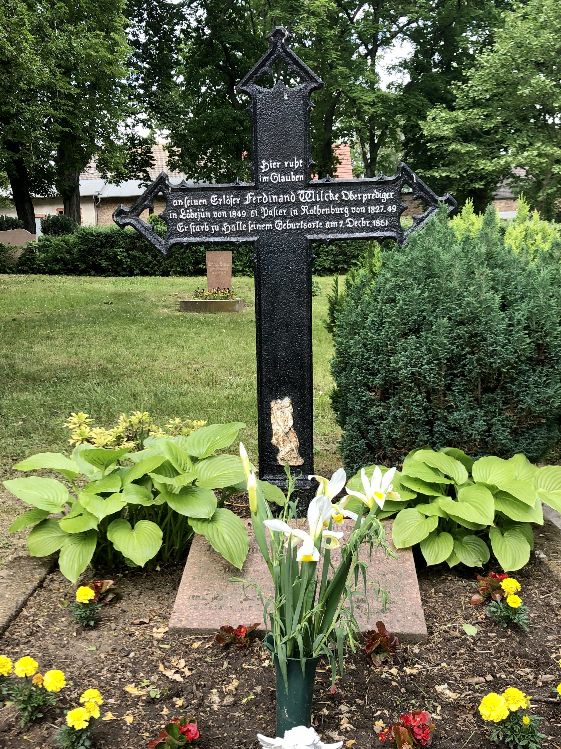 Grave of the author and preacher Ferdinand Wilcke in Löbejün